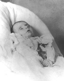 Princess Cristina Pia of the Two Sicilies